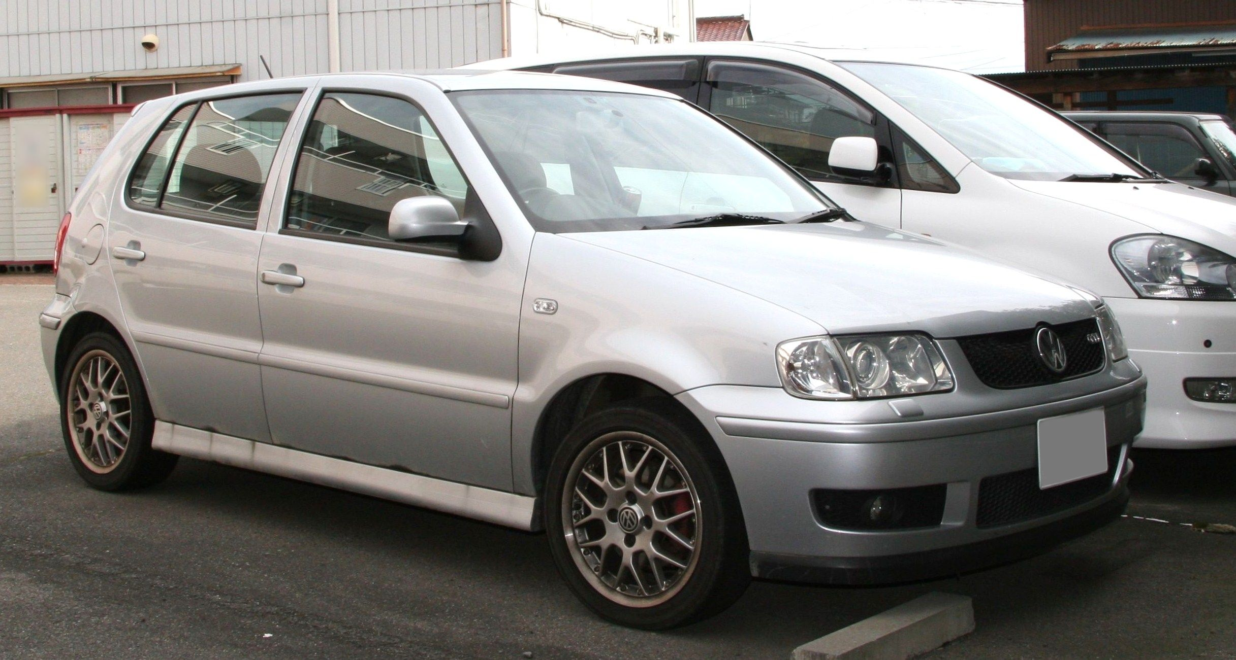 VW Polo III